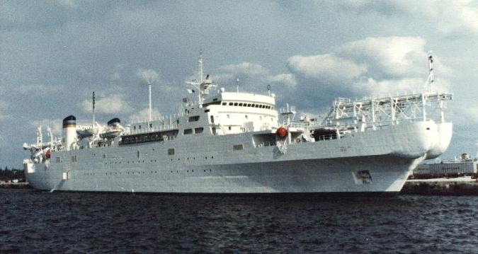 The cable laying and repair ship USNS Zeus (T-ARC-7) operated by the Military Sealift Command.